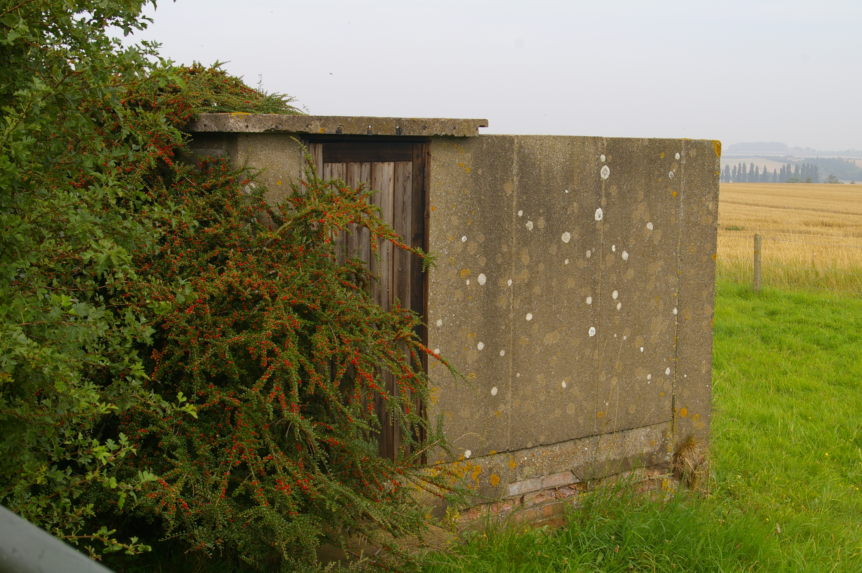 Dersingham ROC aircraft monitoring post This building in the Royal Observer Corps compound near Dersingham is the old "Orlit A" aircraft monitoring post. For further details